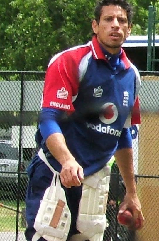 Sajid Mahmood training in the nets at Adelaide Oval